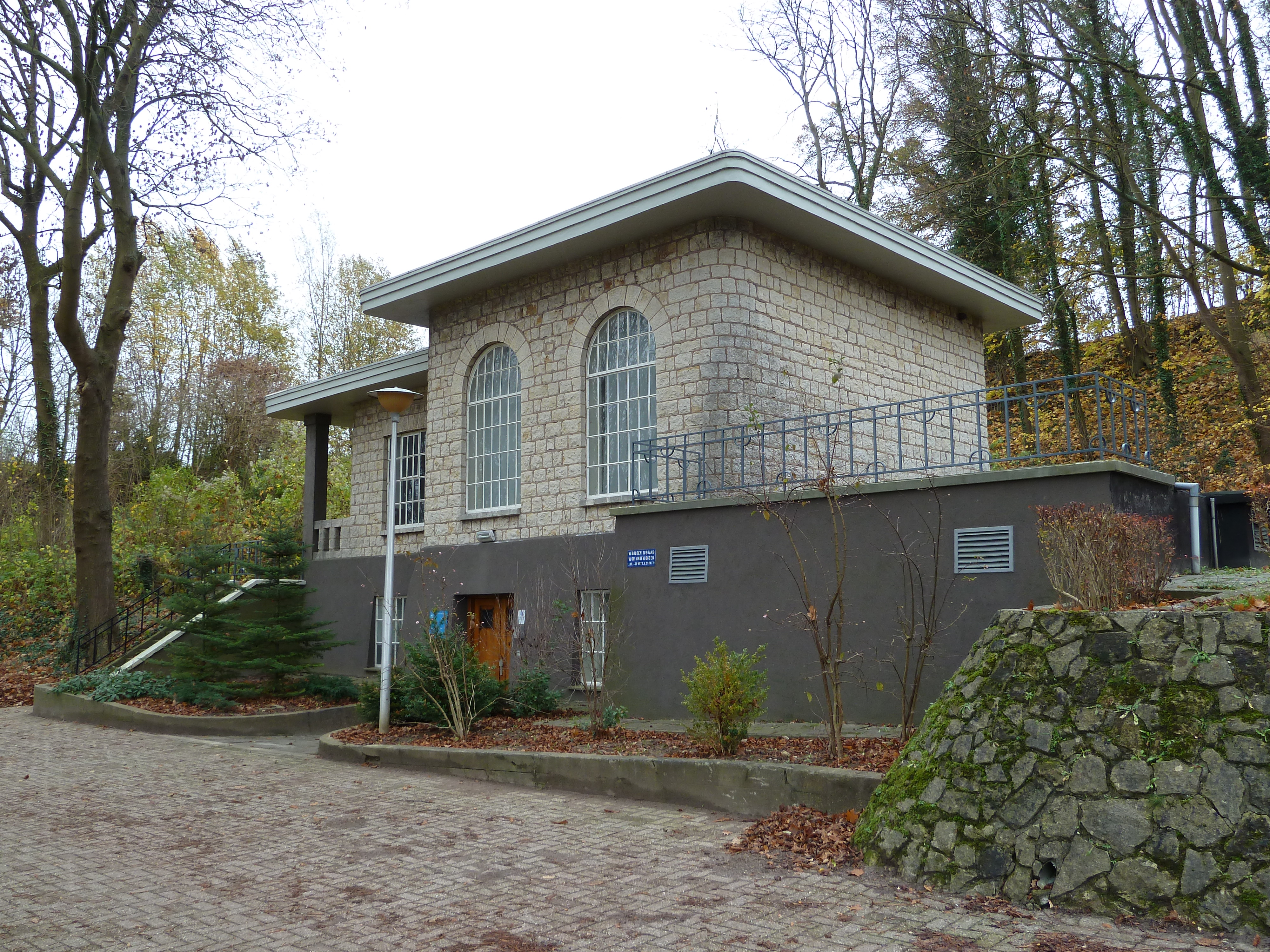 Waterstation in Terveurt, Klimmen, Limburg, the Netherlands